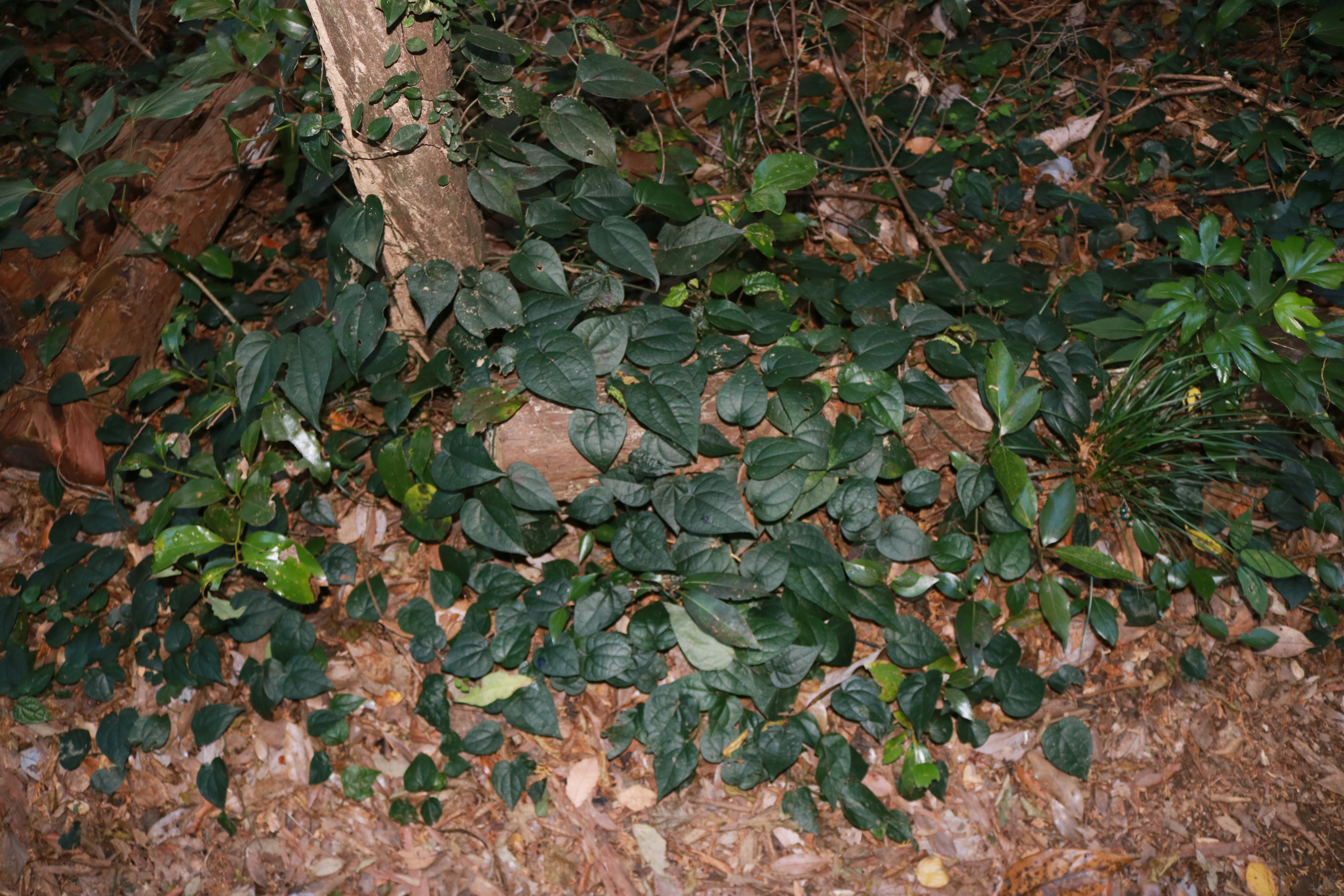 Piper kadsura, Ophiopogon japonicus and Dendropanax trifidus in Tahara, Aichi Prefecture, Japan.